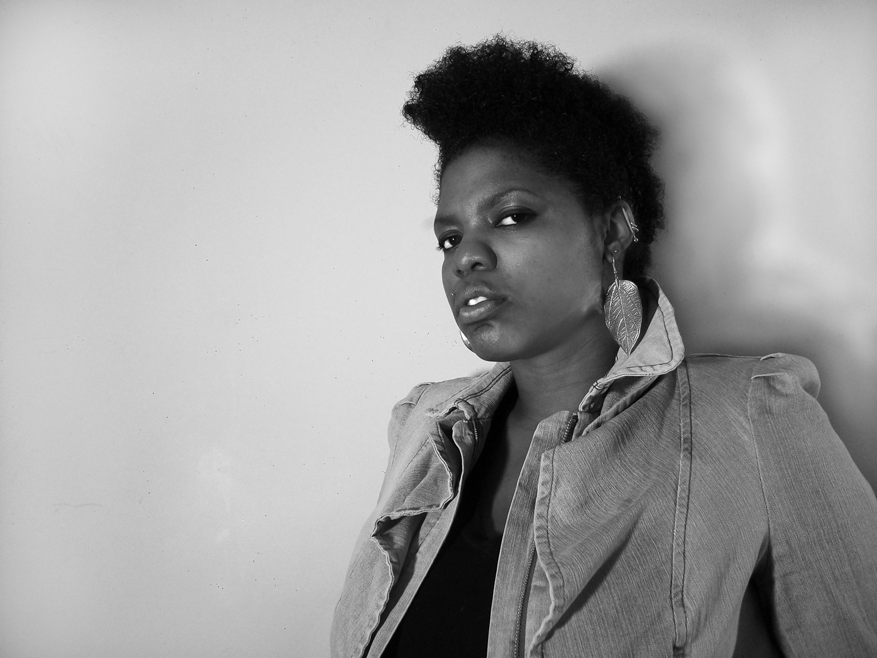 Photo of the Artist